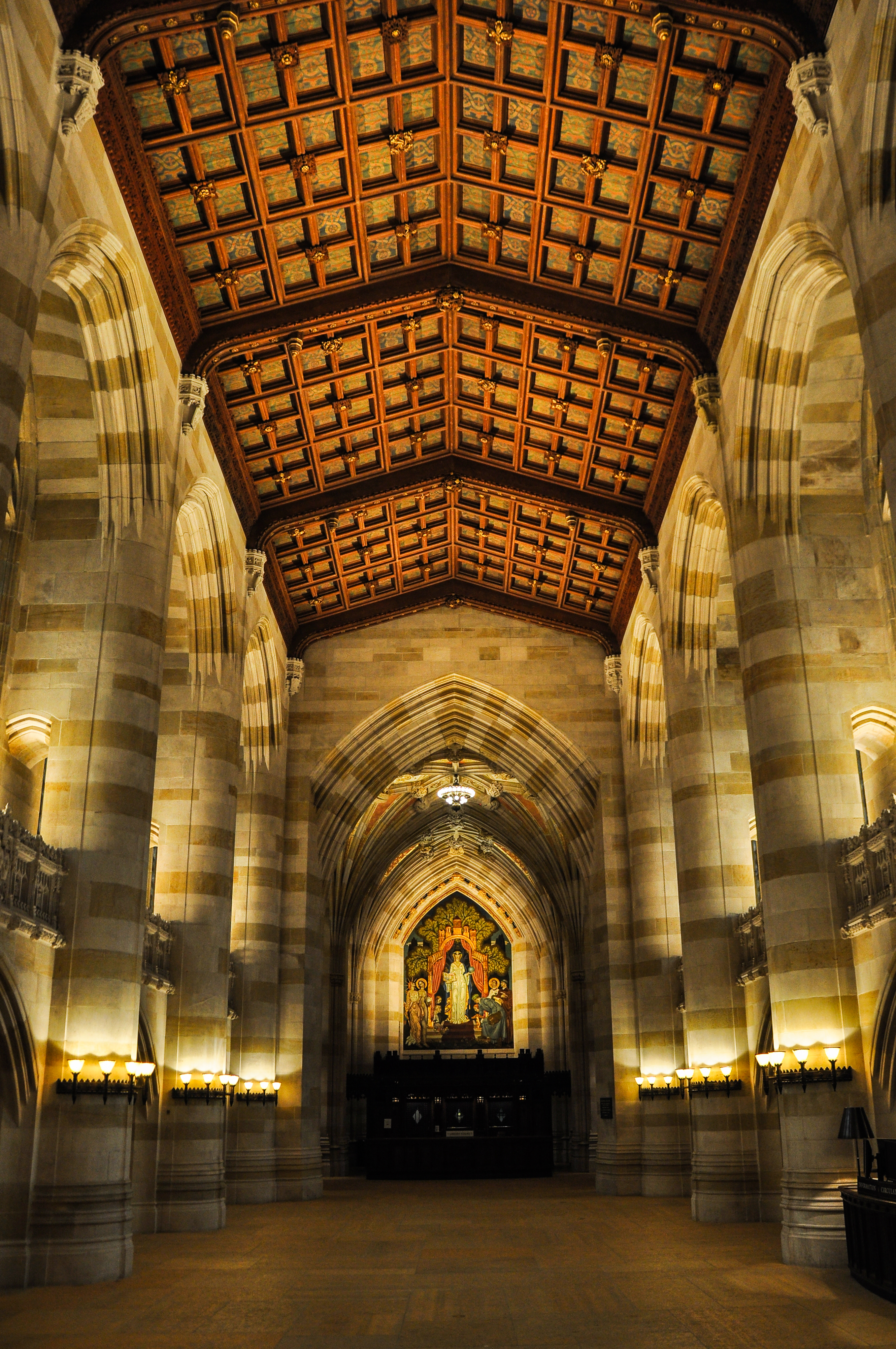 The nave of Sterling Memorial Library, Yale University.